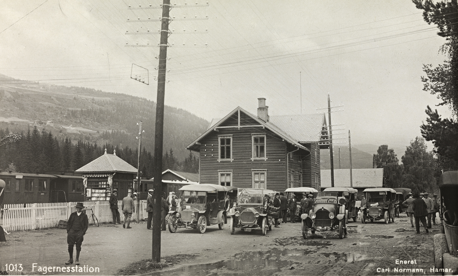 Tittel / Title: 1013 Fagernes station Beskrivelse / Description: Postkort / postcard. Dato / Date: ukjent / unknown Fotograf / Photographer: Carl Normann (1886-1960) Utgiver / Publisher: Carl Normann Sted / Place: Oppland, Nord-Aurdal, Fagernes Eier / Owner Institution: Nasjonalbiblioteket / National Library of Norway Lenke / Link: Bildesignatur / Image Number: blds_05872